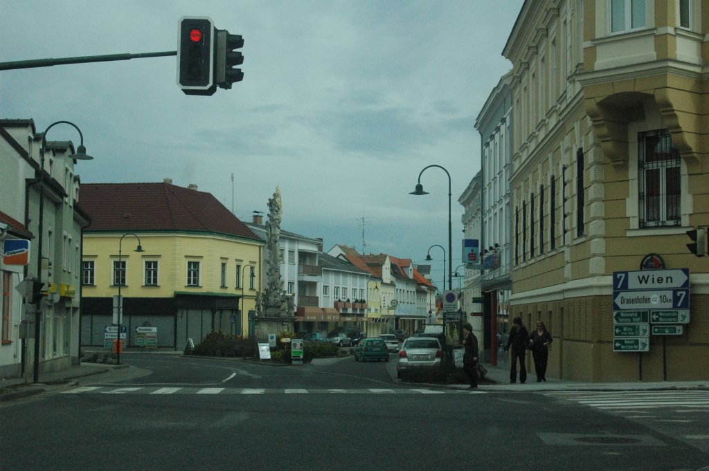 Poysdorf, Lower Austria